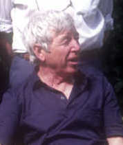 Photograph taken in the gardens of Pen-y-Gwryd of the Kangchenjunga reunion of 1990. Left to right front: Neil Mather, John Angelo Jackson, Charles Evans and Joe Brown Left to right rear: Tony Streather, Norman Hardie, George Band and Prof. John Clegg.